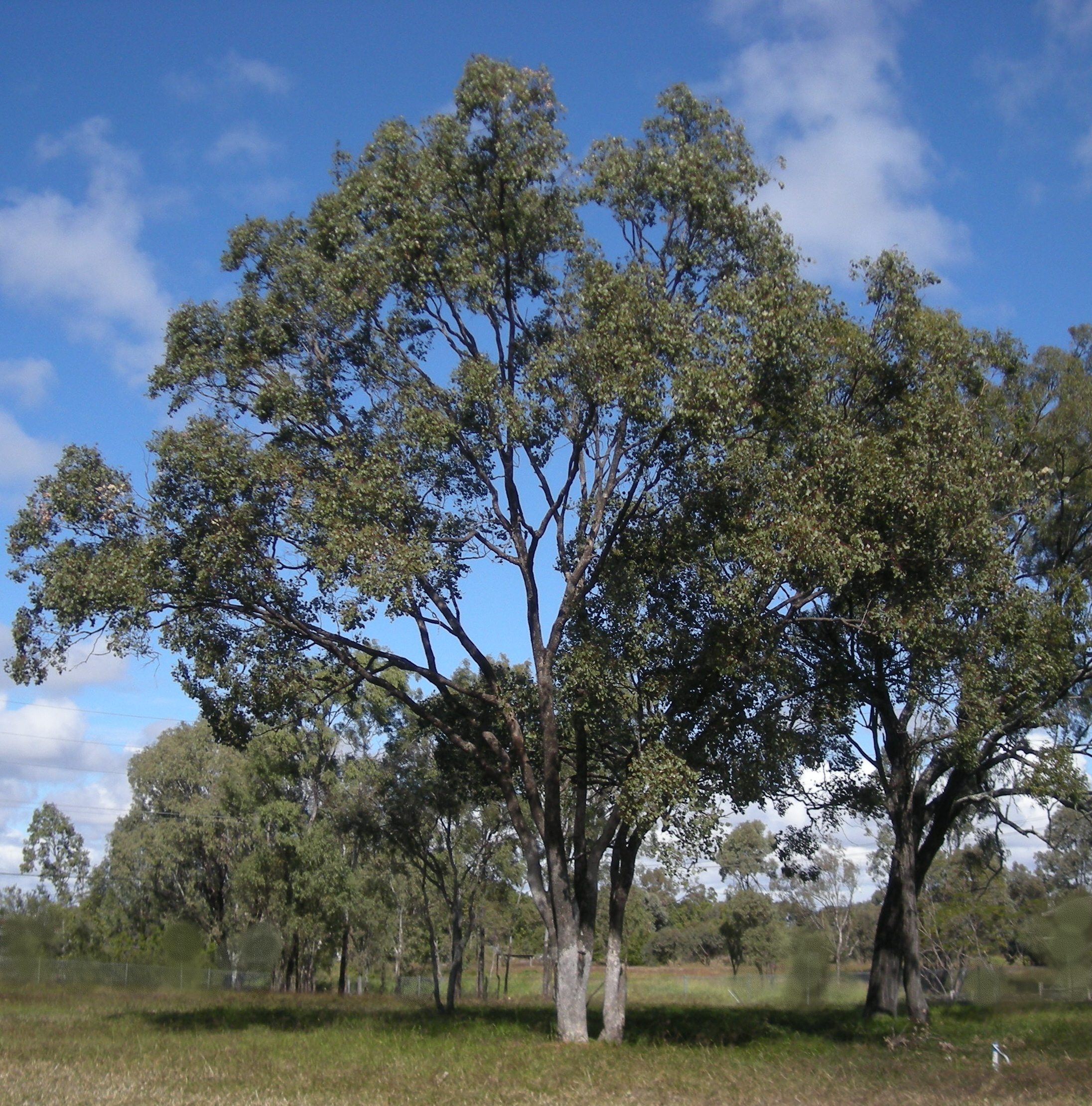 Eucalyptus populnea trees, coastal Central Queensland